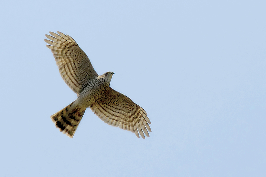 Eurasian Sparrowhawk in flight as seen from below